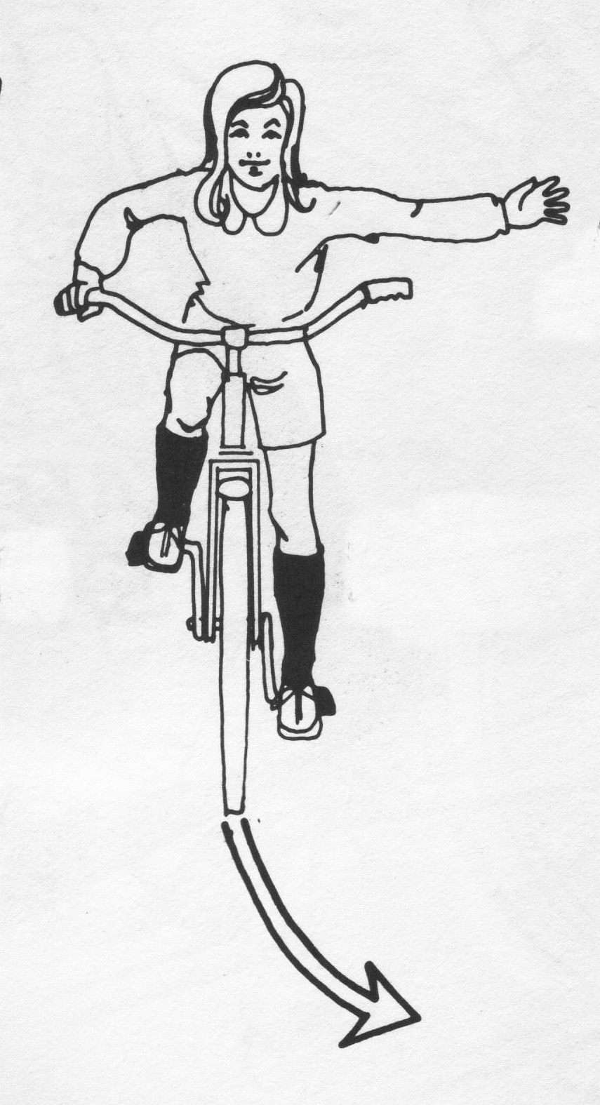 Diagram showing a left turn signal as used in the United States